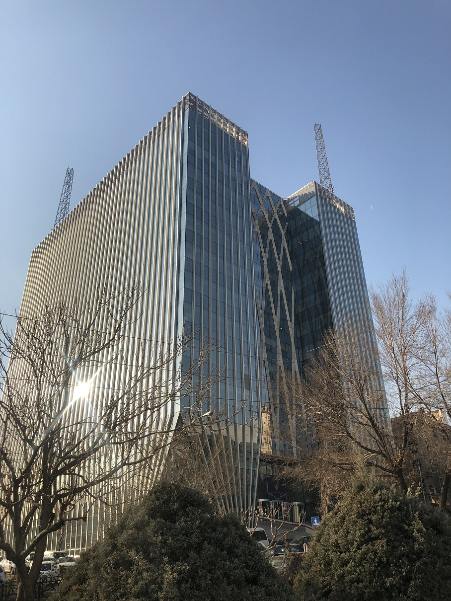 Tehran Stock Exchange new building